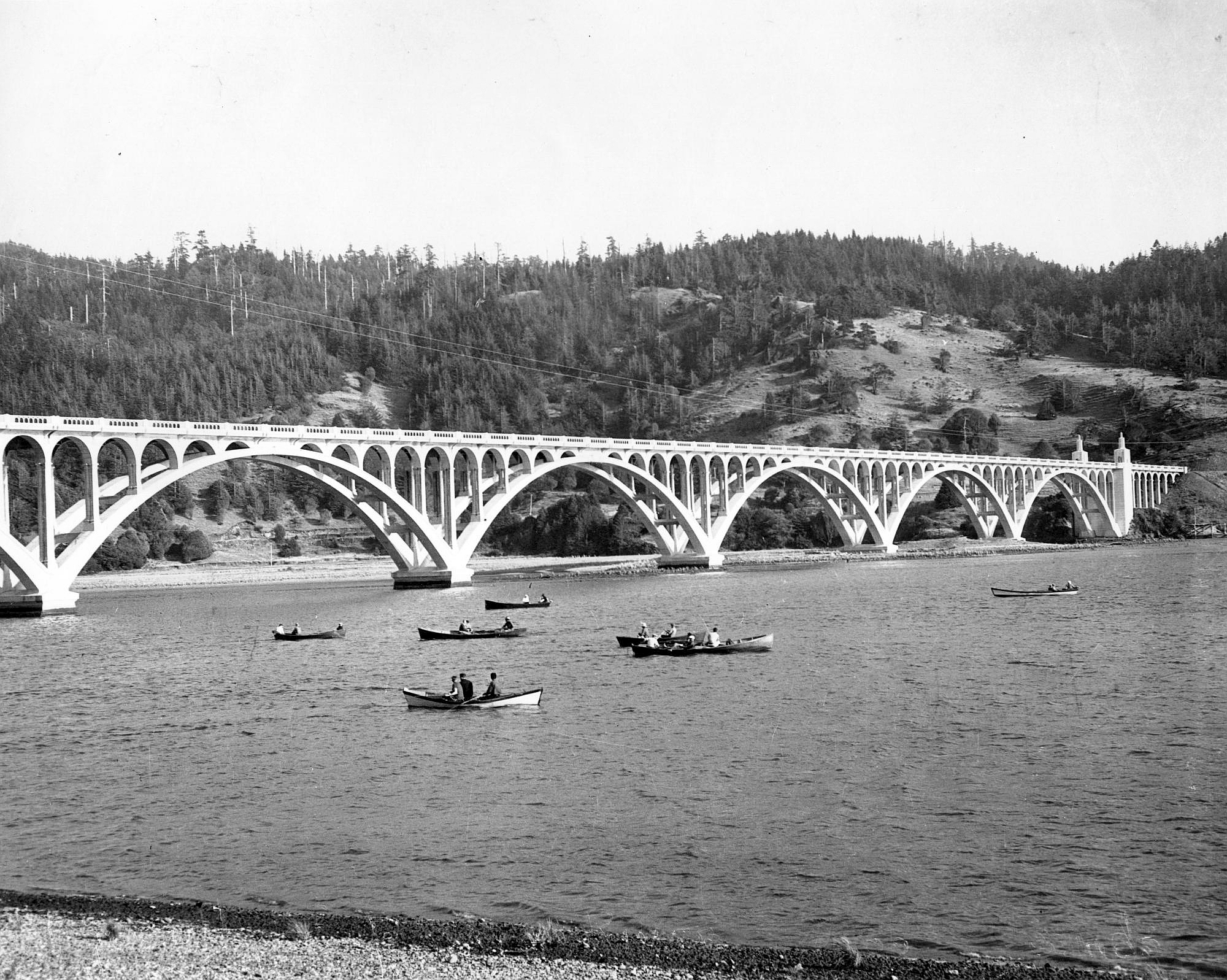 Original Collection: Gifford Photographic Collection Item Number: P 218 SG 2 282 You can find this image by searching for the item number by clicking here. Want more? You can find more digital resources online. We're happy for you to share this digital image within the spirit of The Commons; however, certain restrictions on high quality reproductions of the original physical version may apply. To read more about what “no known restrictions” means, please visit the Special Collections & Archives website, or contact staff at the OSU Special Collections & Archives Research Center for details.